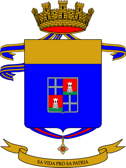 Coat of Arms of the 152° Infantry Regiment; Italian Army.